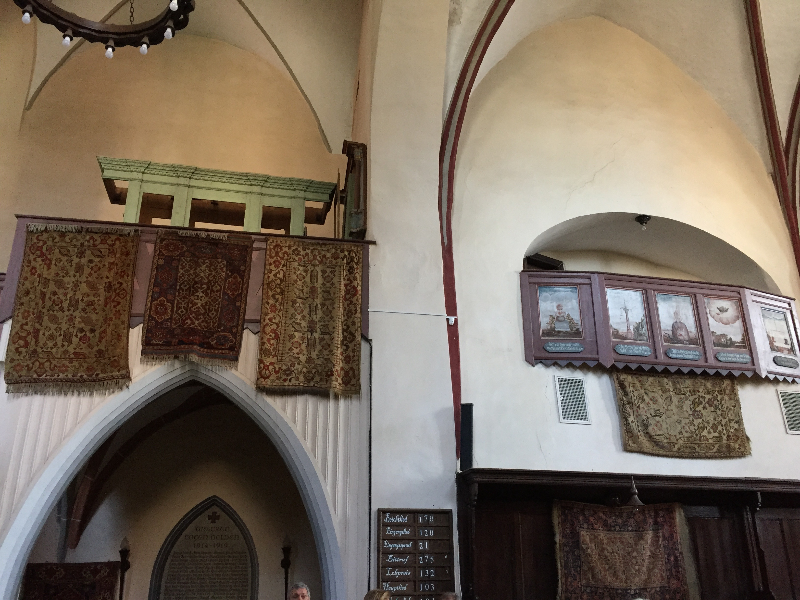 Transylvanian rugs of the "Lotto" and "Bird" type in the Monastery Church of Sighișoara, Romania. Northern wall of the nave and choir, 2017